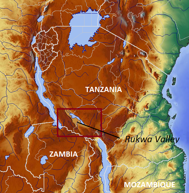 Relief map showing Rukwa Valley, Tanzania